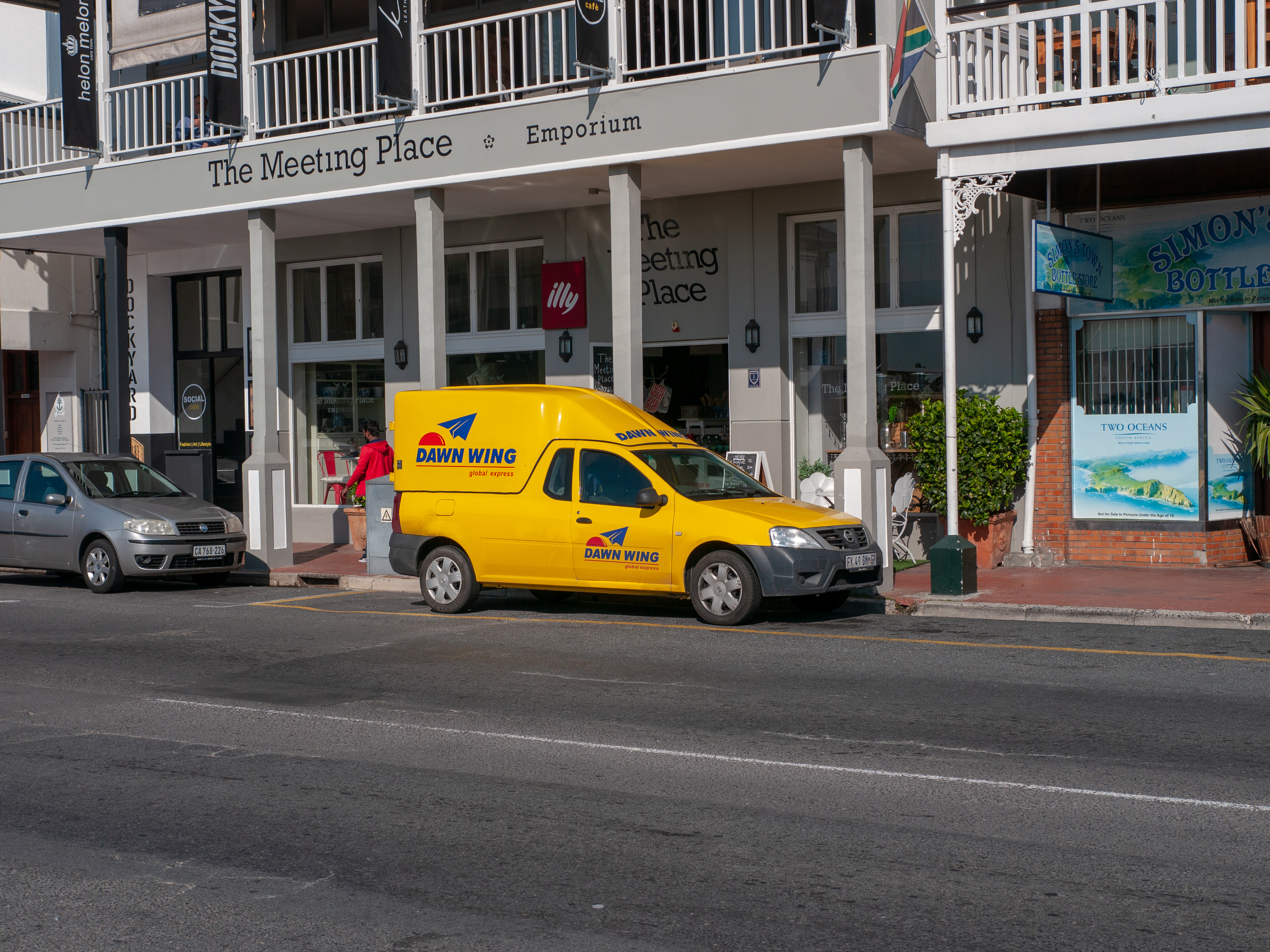 Wikimania 2018, Cape Town